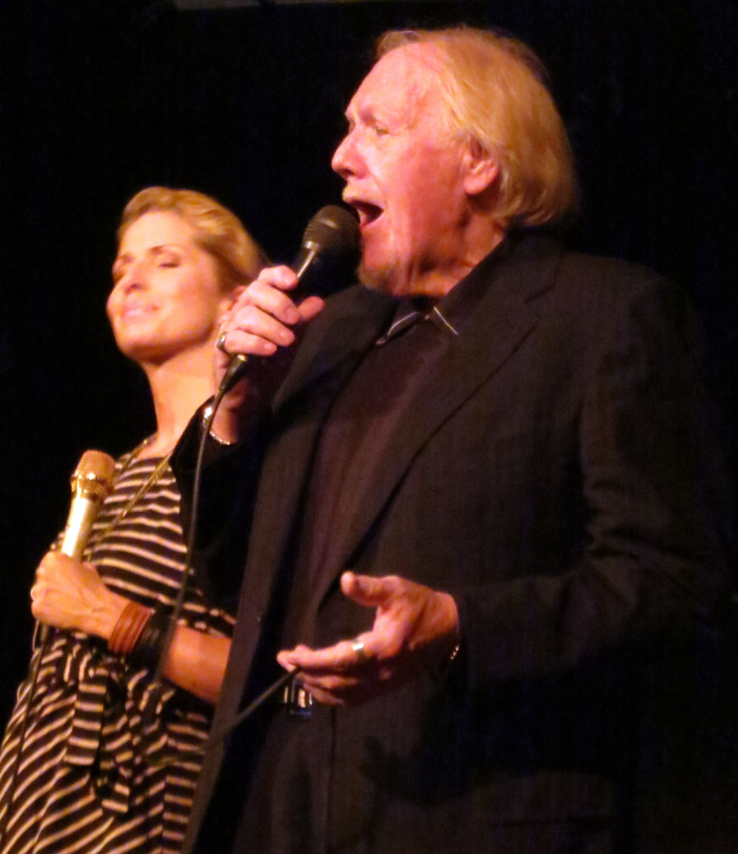 Swedish singers Svante Thuresson and Viktoria Tolstoy perform at Skottvångs gruva near Gnesta, November 17 2012.